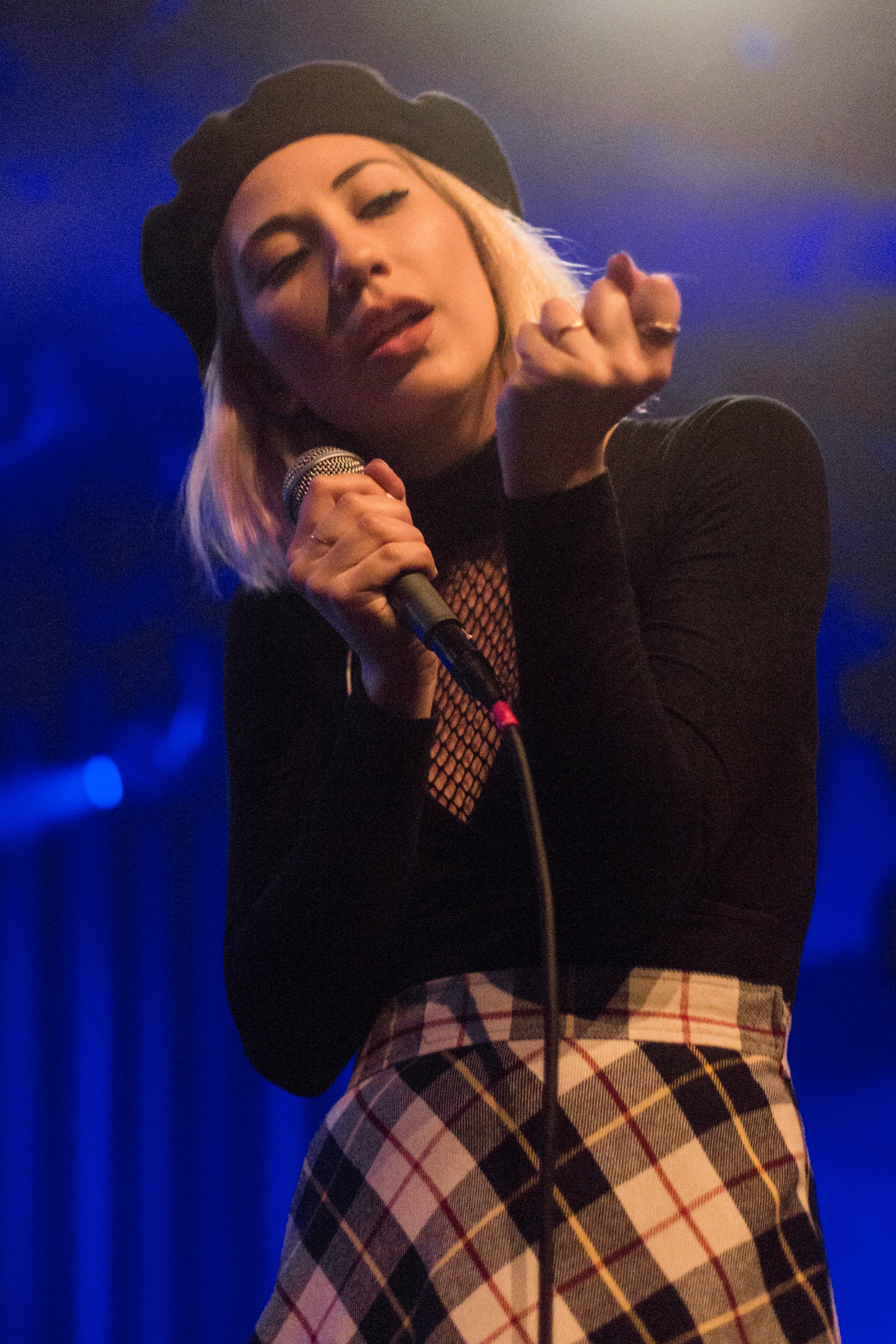 Live at London Calling loves Concerto festival in Amsterdam